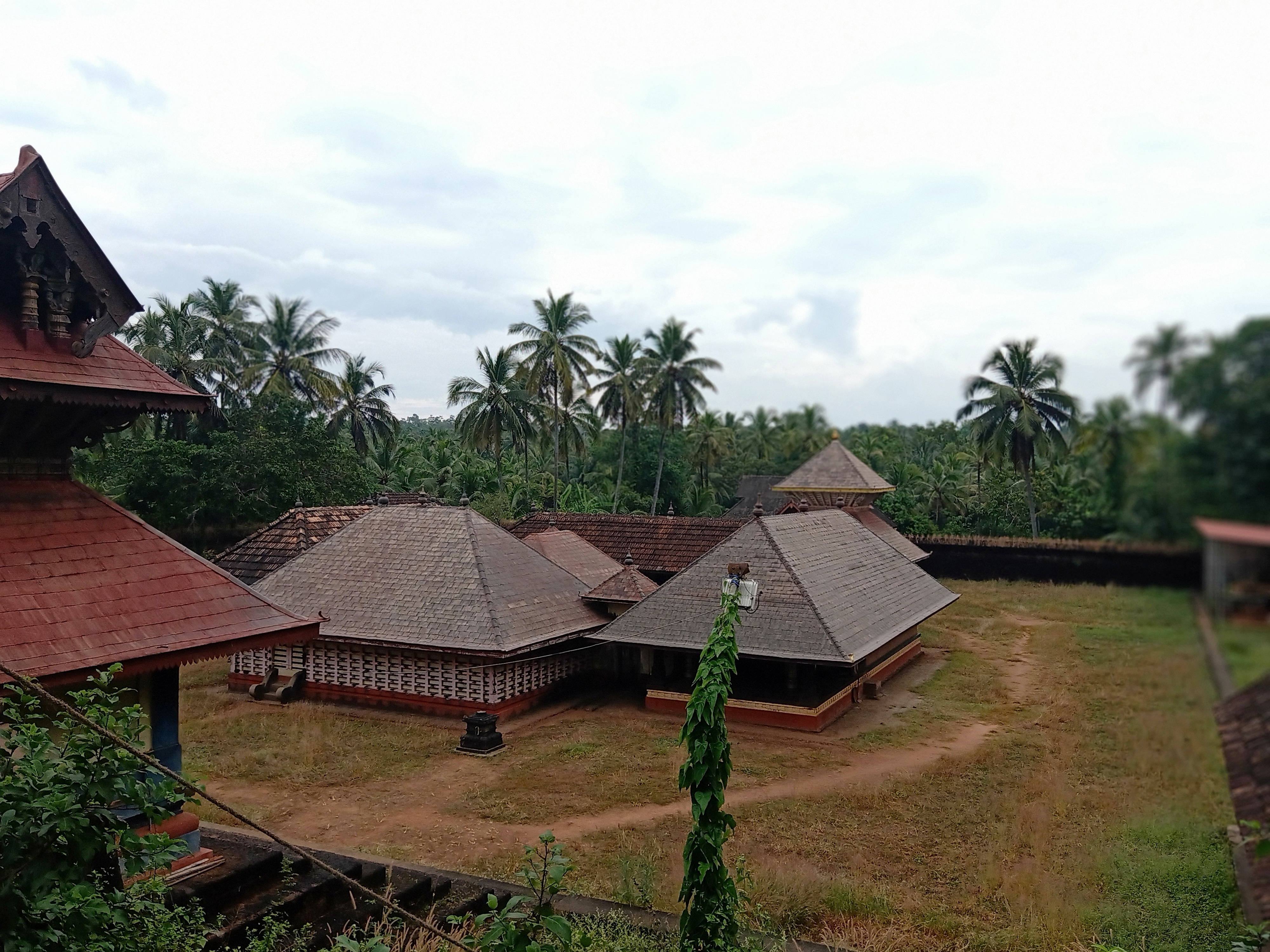 Sree Madiyan koolom Temple at Madiyan kasaragod kerala is a famous temple for its murals and for Daru sculpture on the temple walls and roof